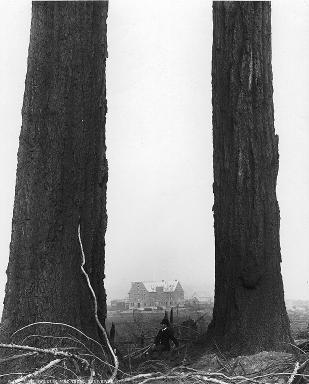 Coast Douglas-fir (Pseudotsuga menziesii var. menziesii), Vancouver, British Columbia, Canada, 1887